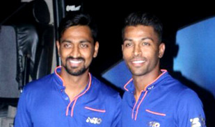 Krunal Pandya and Hardik Pandya during the 2017 Indian Premier League victory celebration at Mukesh Ambani's house